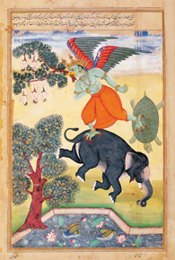 Garuda , vishnu's eagle want to amrita to free his mother kadru so in his way he hungry and caught elephant and tortoise who are ascetic vibhavasu and supratika who are cursed by sages . when garuda sit on tree for rest and eat them sudden branch of tree about crack . garuda see balkhilya hanging down on tree branch for tapasya so he hold branch in his beak . Paintings of Razmnama is the Persian translation of one of the great Hindu epics of India, the Mahabharata. The Mughal emperor Akbar took a personal interest in the translation project and invited learned men and scholars to participate. Once complete, the translation was produced in a lavishly illustrated manuscript by his atelier. Three copies were, of which the three-volume Razmnama in the Birla Academy of Art and Culture, Kolkata, is the only copy that is complete with 81 miniatures, bearing the name of the scribe and the date of completion, 1605. It is as a key document for the study of Mughal painting during the beginning of the 17th century. The paintings are of great interest to students of Mughal painting as they combine the finest elements of the Mughal court style with the narrative style of storytelling.